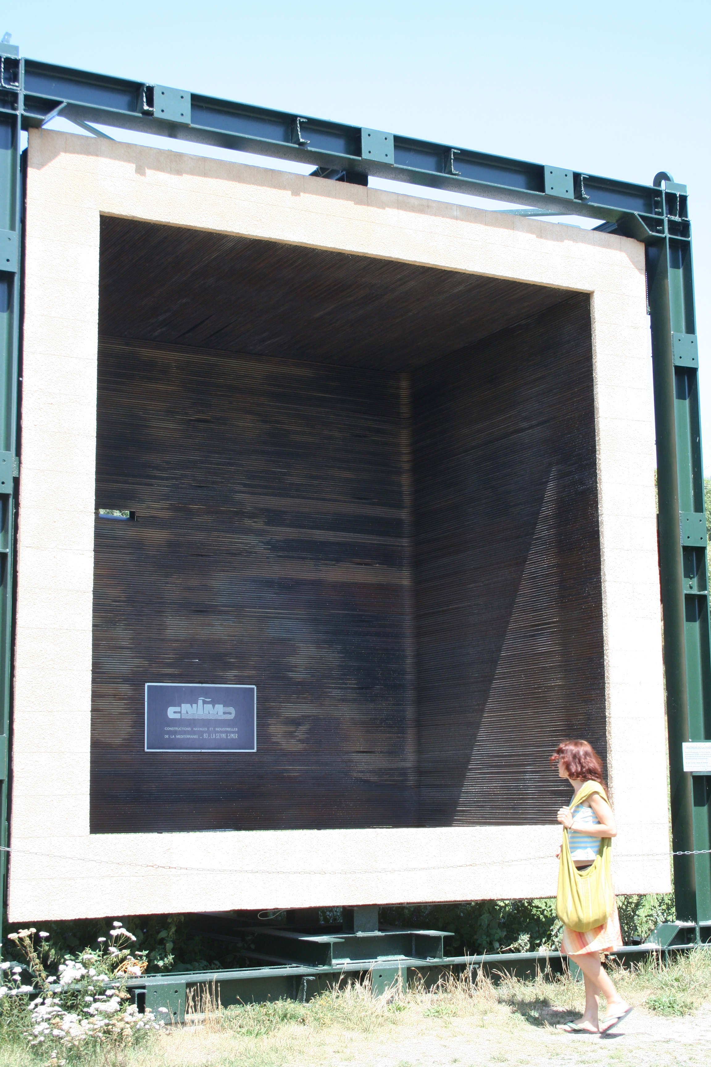 the original boiler of the themis solar power plant